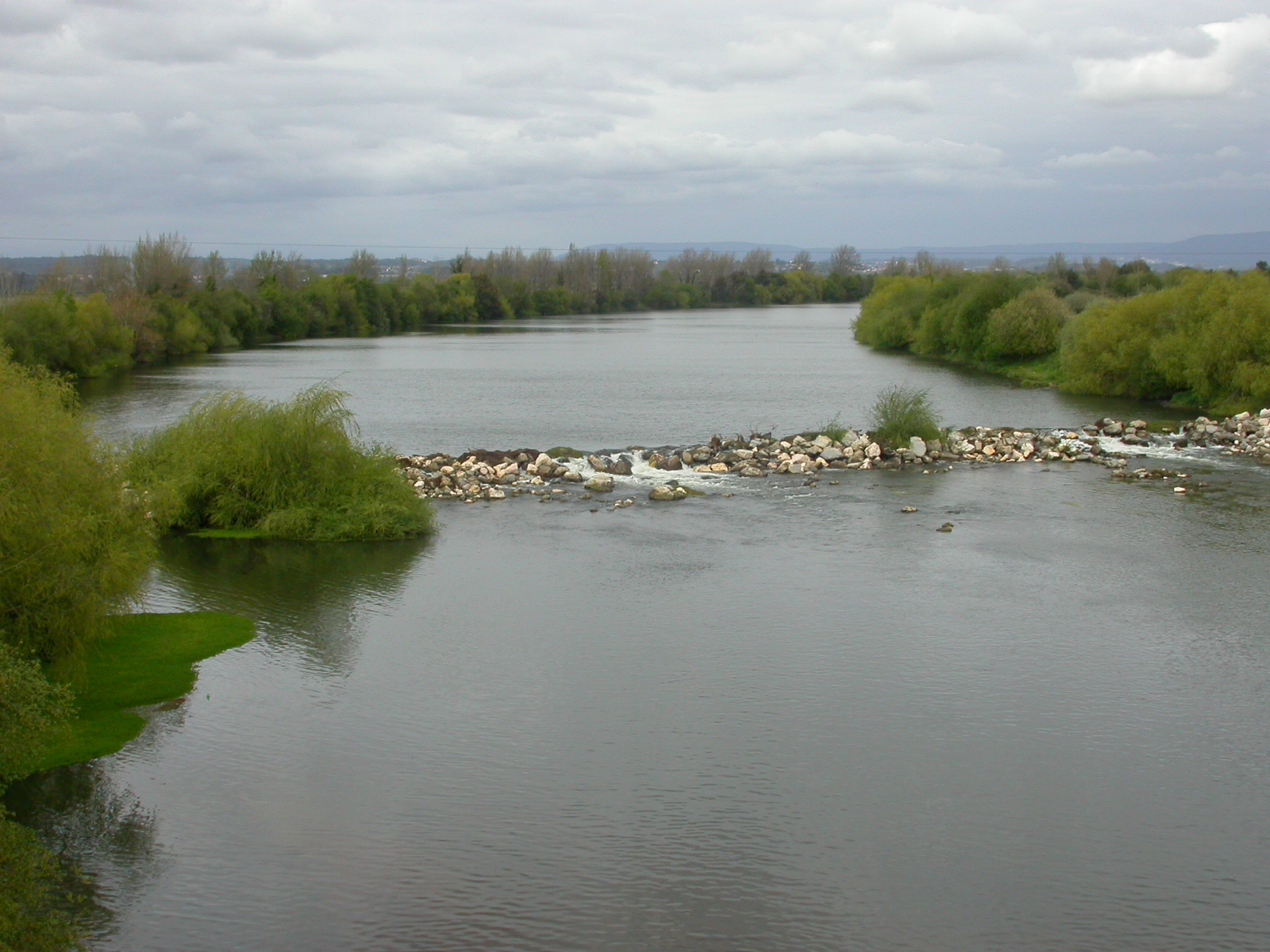 Mondego River, near Montemor-o-Velho, Portugal